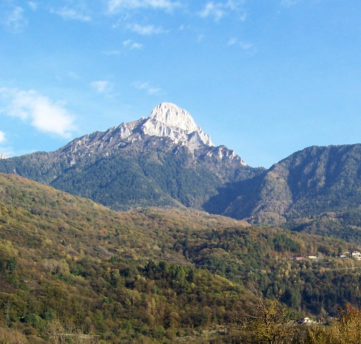 Mount Pizzo Badile, Val Camonica